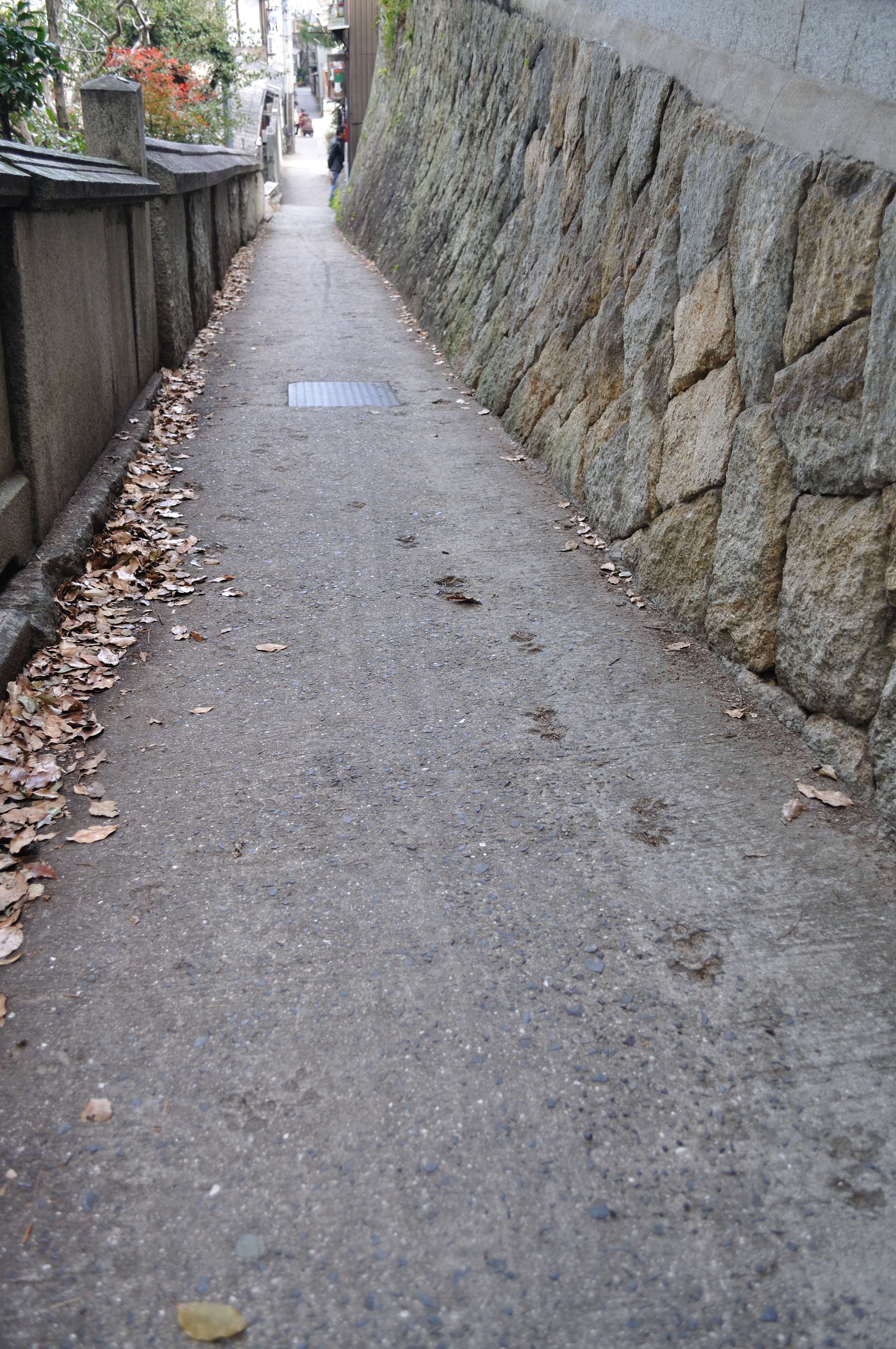 Footprints of a Cat 猫の足跡